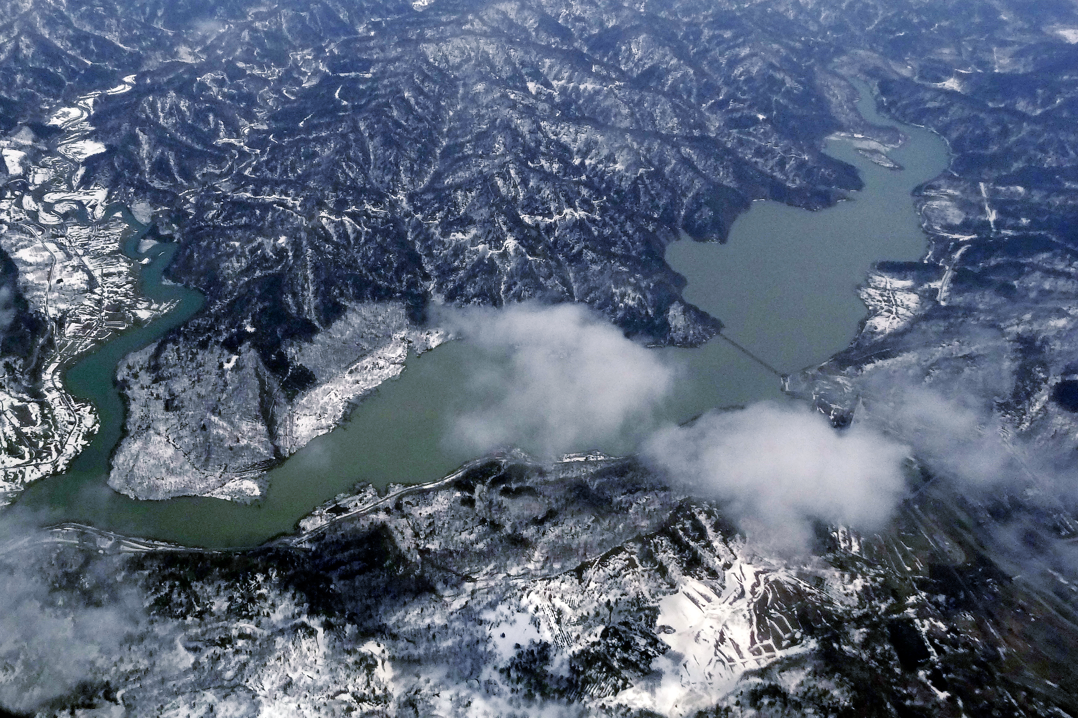 Lake Shuparo from the sky in Yuubari, Hokkaido prefecture, Japan.